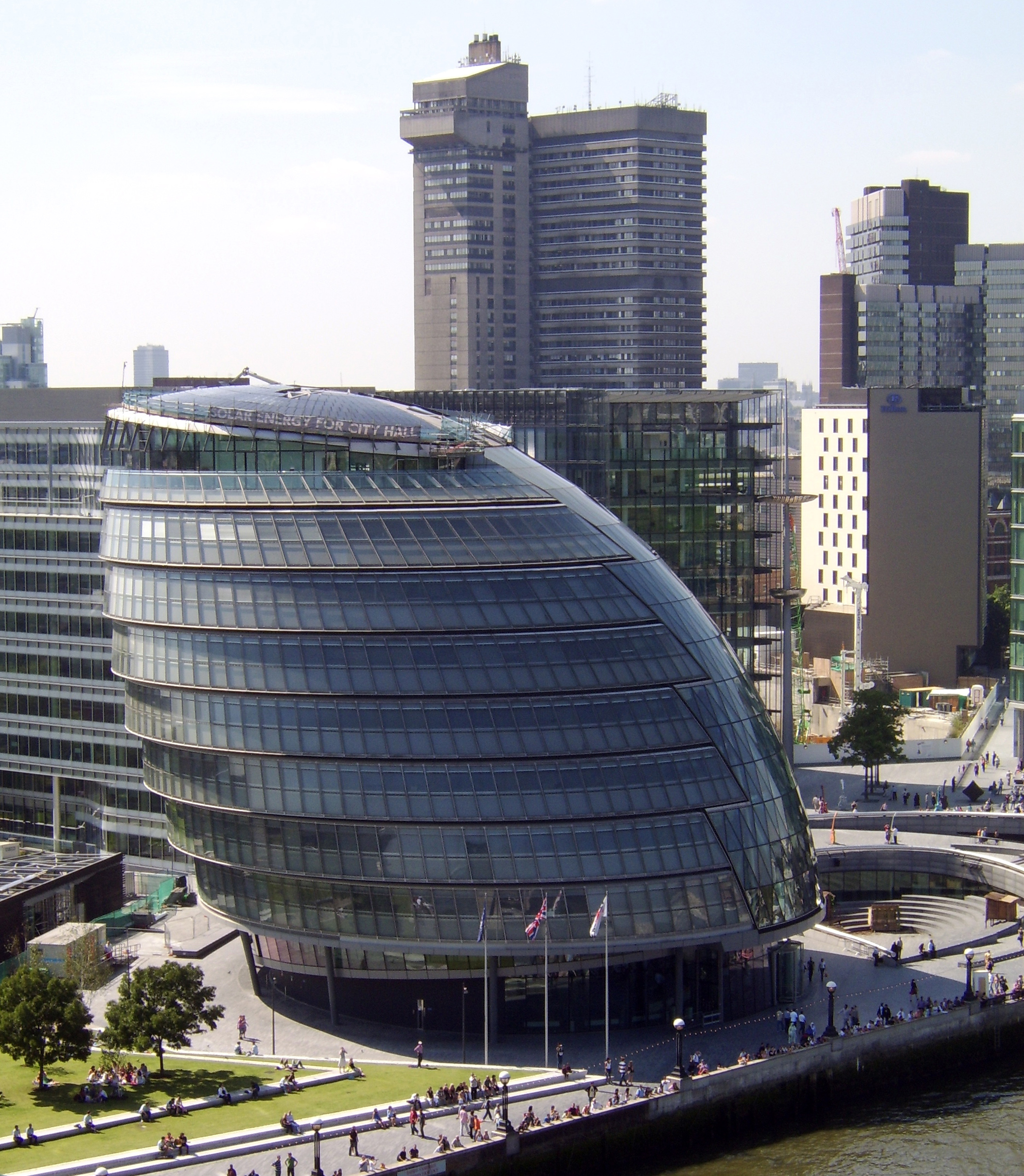 City Hall London UK taken from the Walkway above Tower bridge.